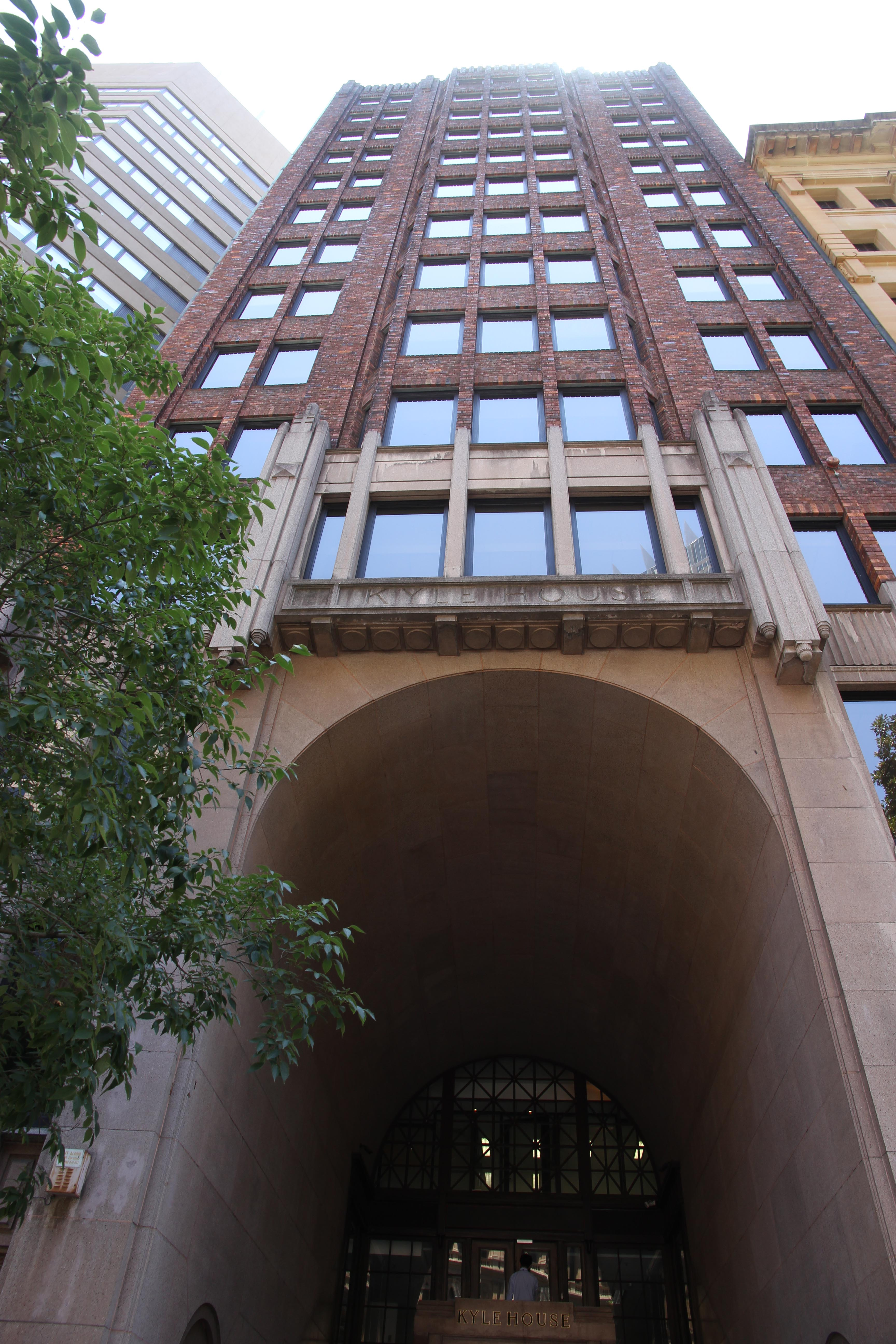 Kyle House located in Macquarie Place in the Sydney central business district in the City of Sydney, New South Wales, Australia